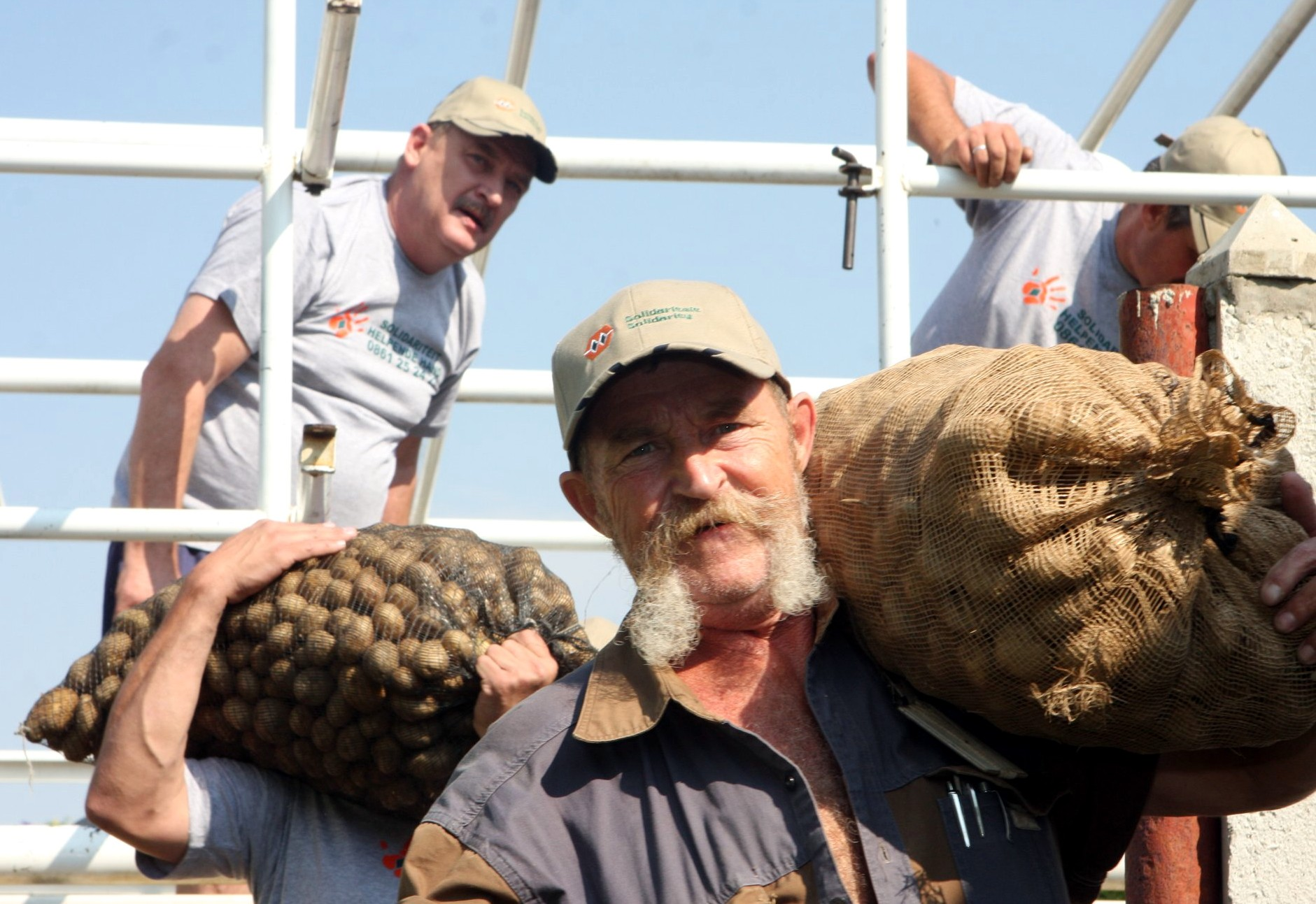 A volunteer for Solidarity Helping Hand helps to deliver a donation of food to employees of Pamodzi Gold who have not received their salaries. Welkom, South Africa